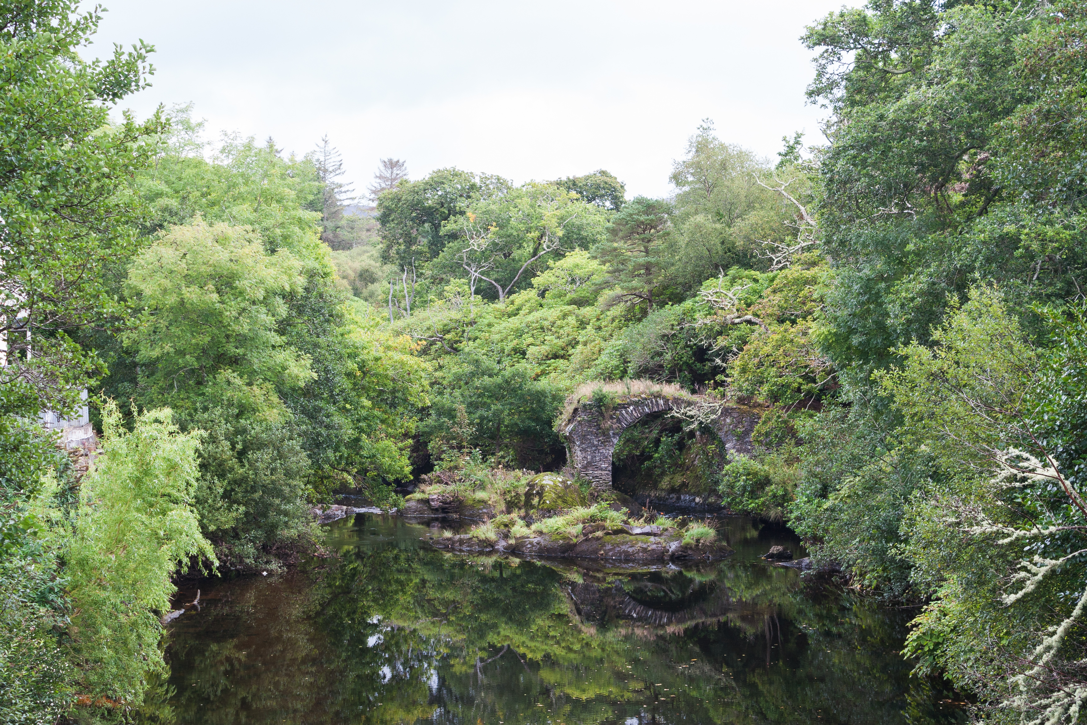 Ruins of Cromwell's Bridge as seen from the west.